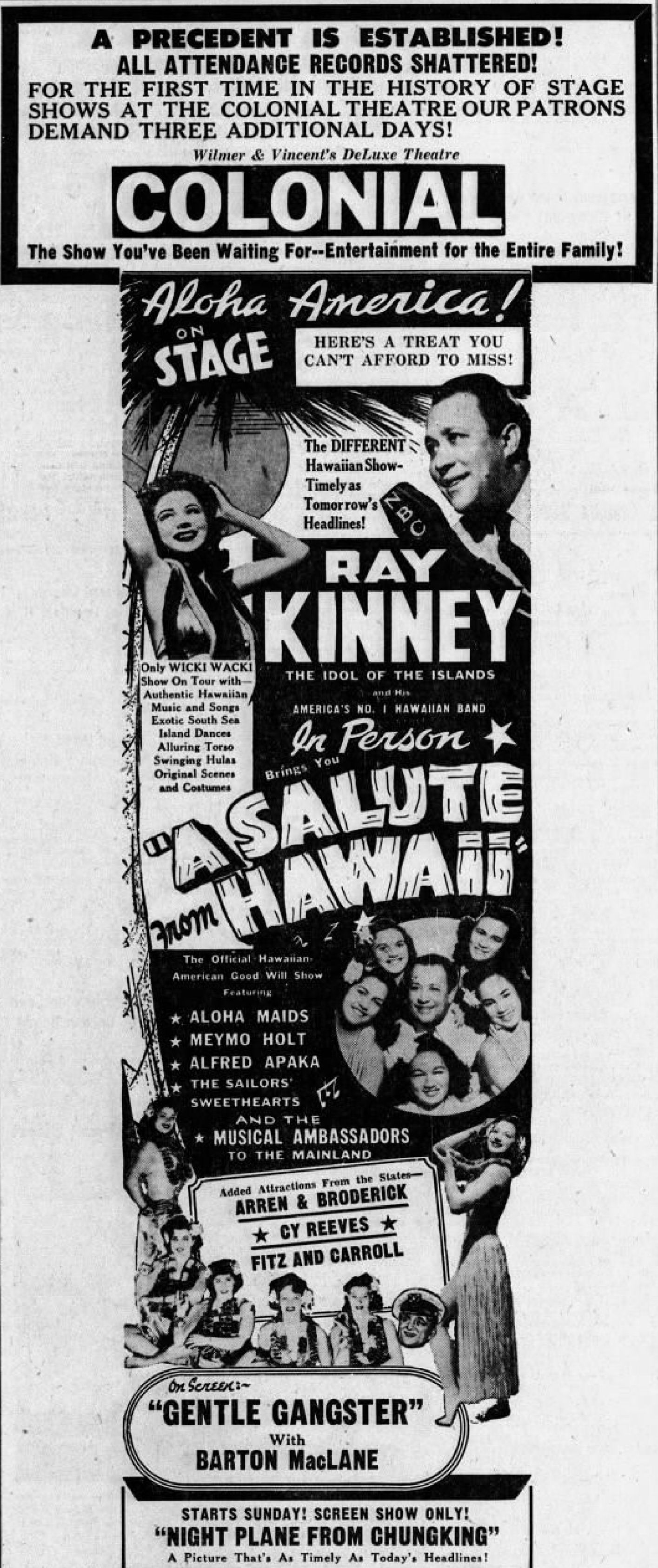 Colonial Theater advertisement for the Ray Kinney show "A Salute from Hawaii" - 29 Apr. 1943 Morning Call, Allentown PA